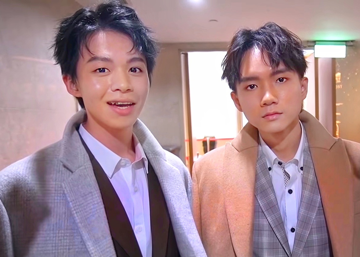 YouTuber 黃氏兄弟